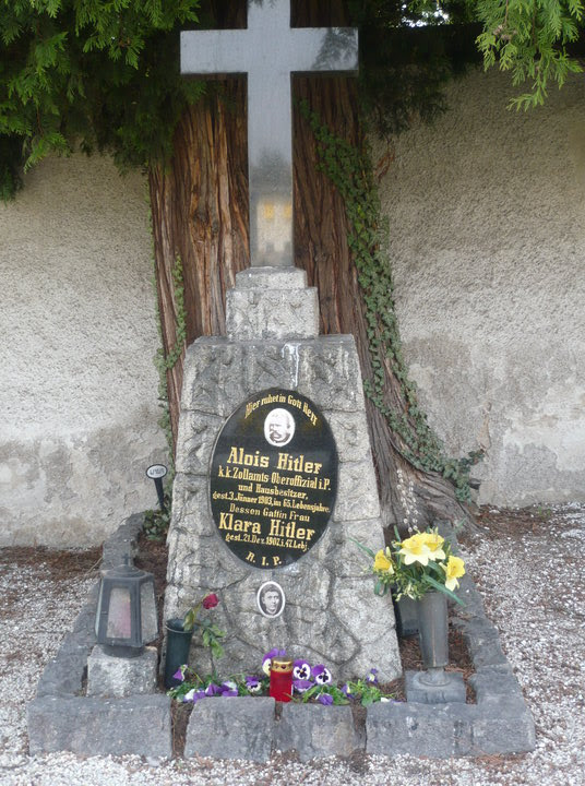 The graves of Alois and Klara Hitler in the cemetery at Leonding near Linz. This photograph was taken in 2013.